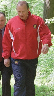 Oleg Romantsev as head coach of Russian national football team